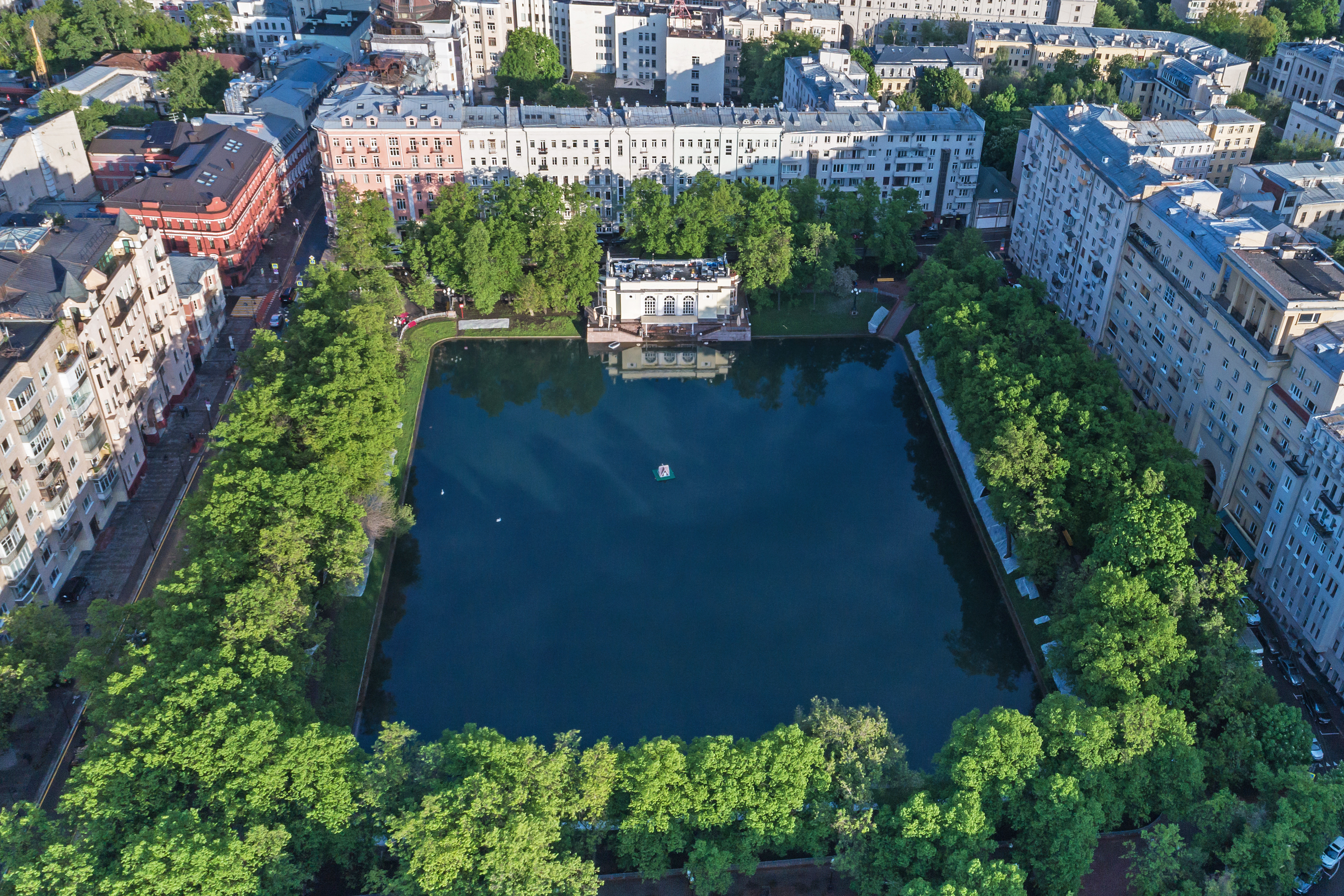 Aerial photo of Patriarshiy Pond in Moscow (Russia).